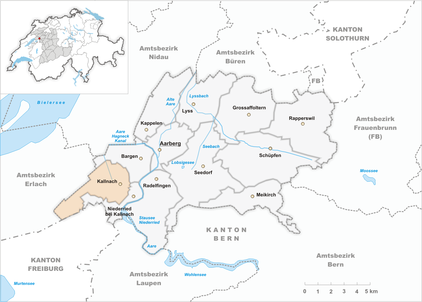 Municipality Kallnach